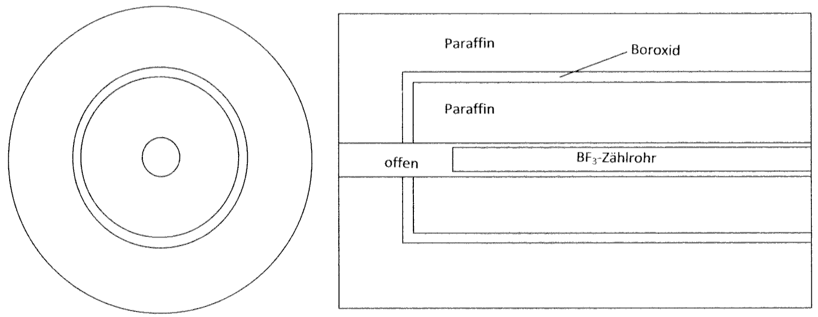 Long Counter Schematic